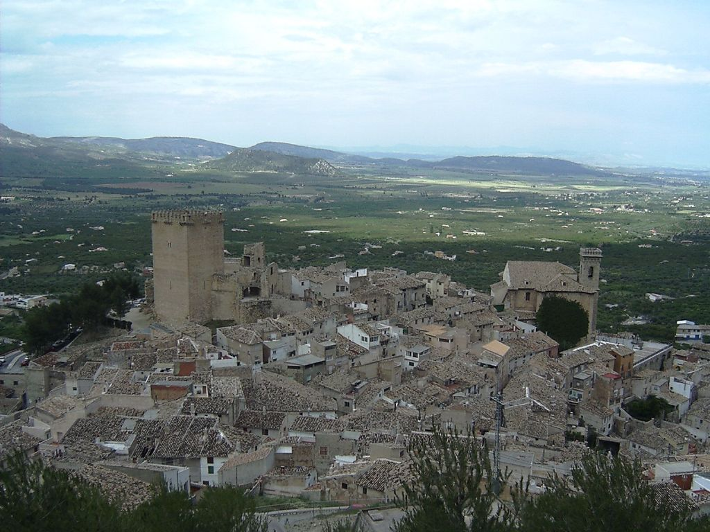 Moratalla, Murcia, Spain. General view of the ancient quarter.